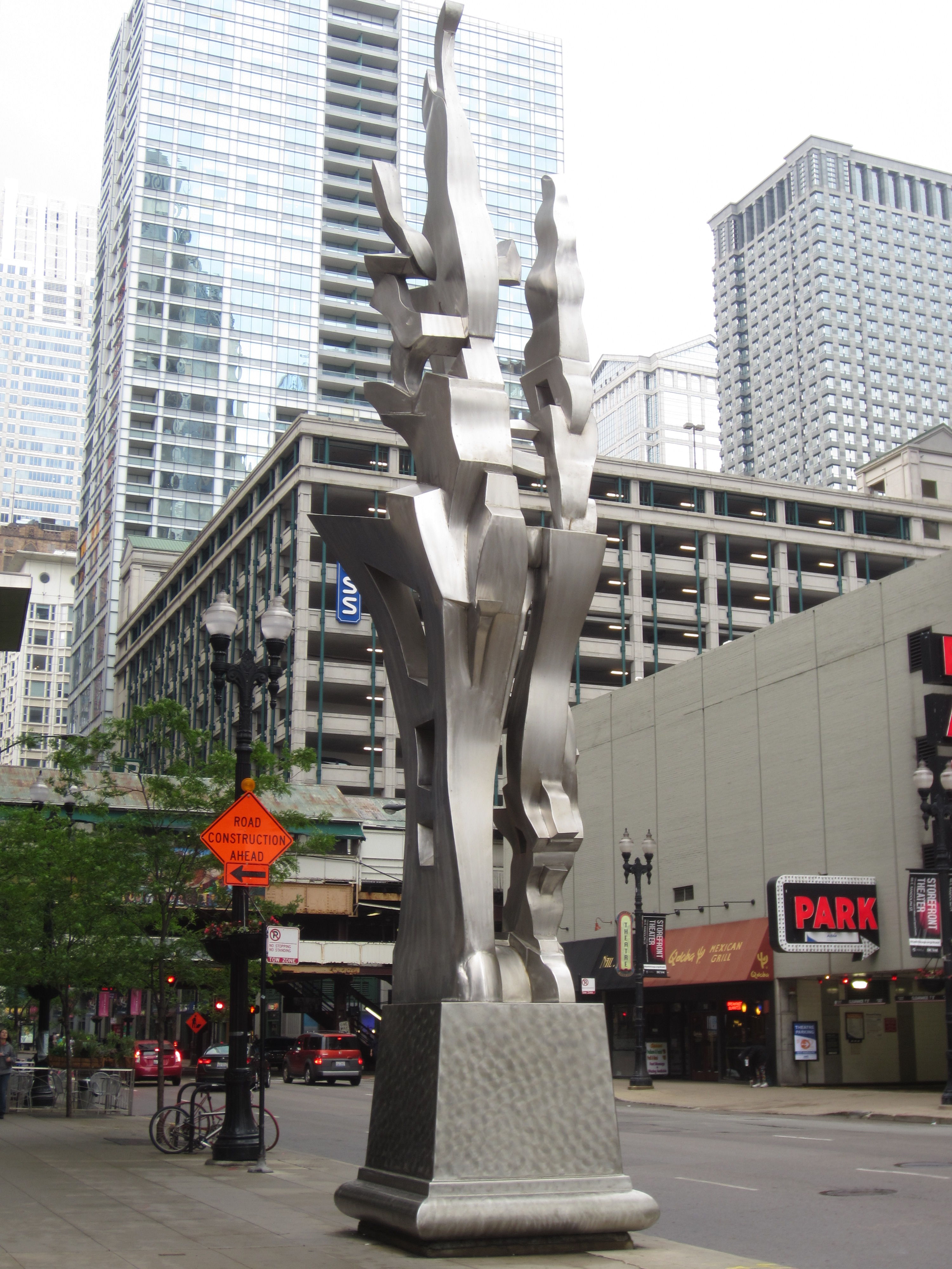 Chicago, Illinois, June 2015